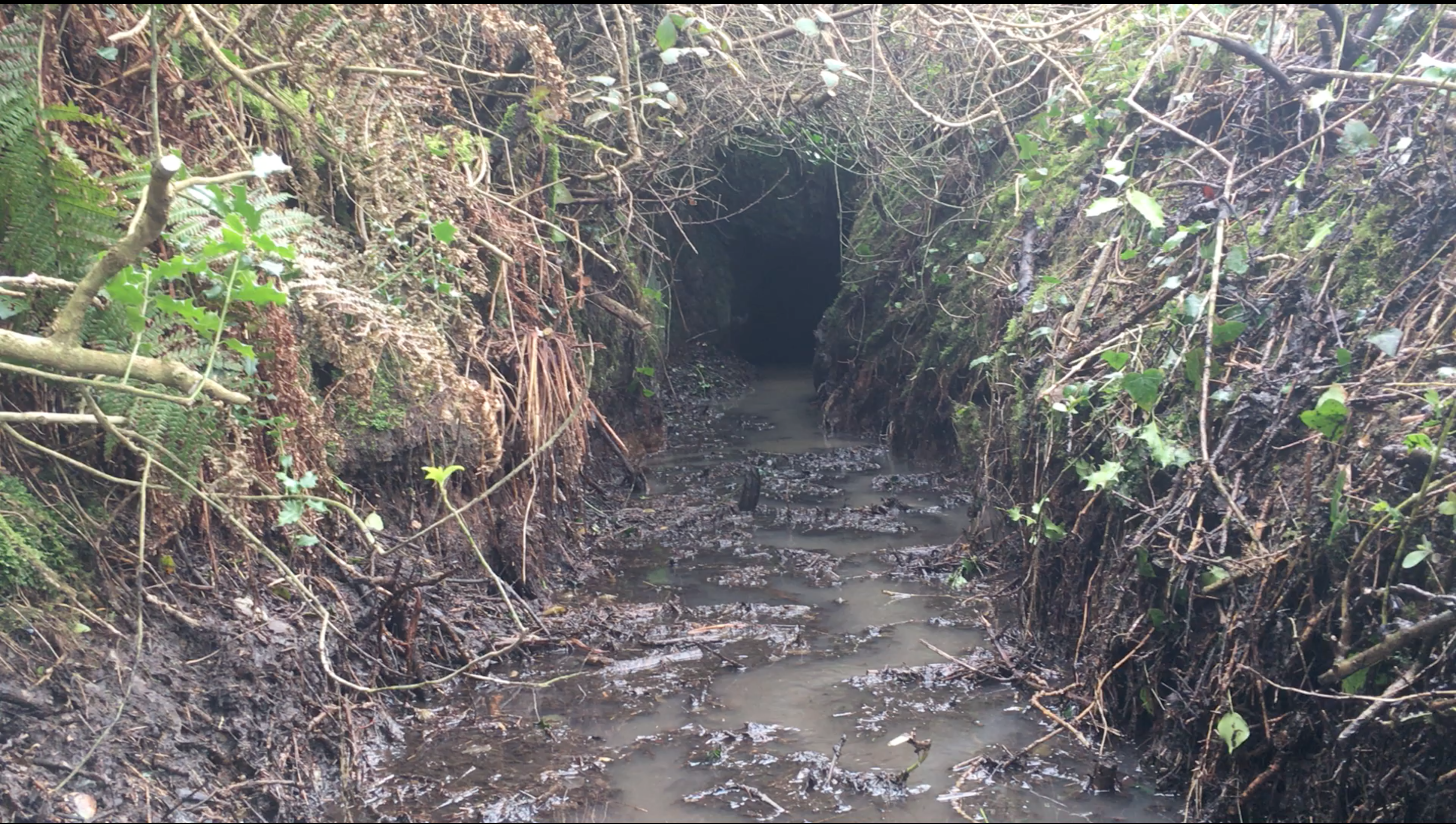 The entrance to the Old Day Level in 2018